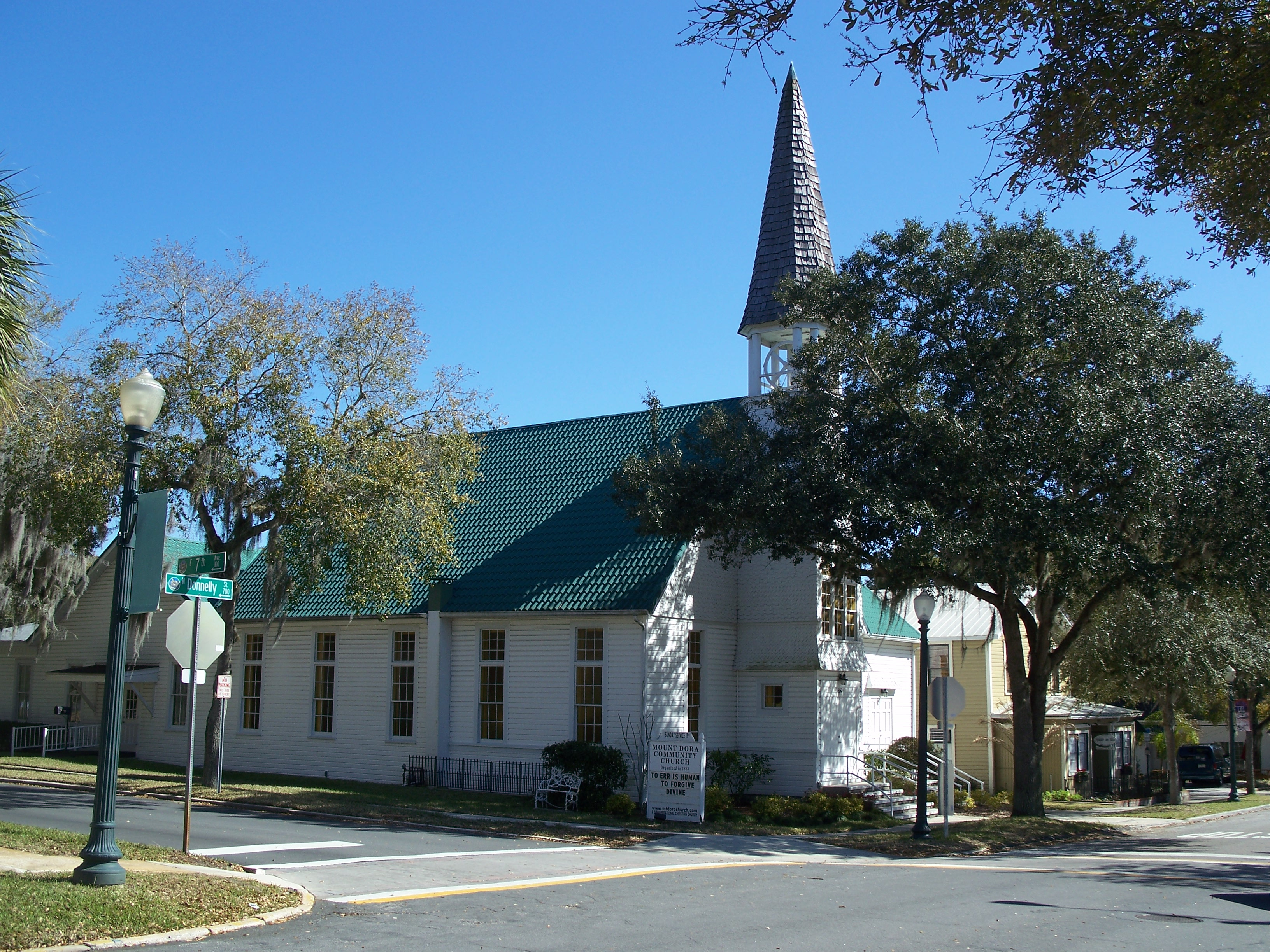 Mount Dora, Florida: Mount Dora Historic District: Community Congregational Church, in the district. Listed in A Guide to Florida's Historic Architecture.